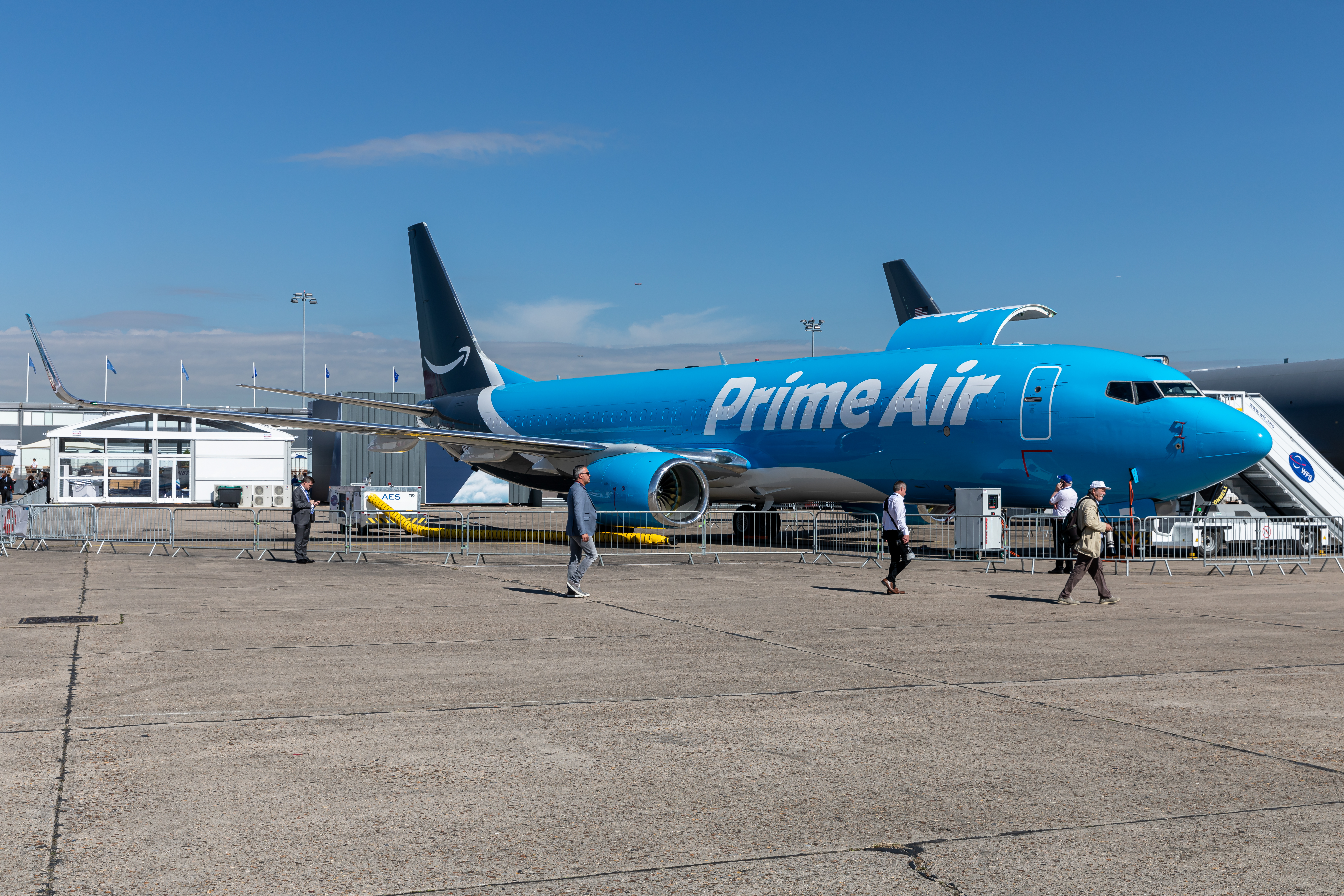 Paris Air Show 2019